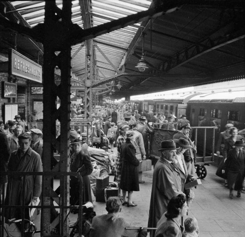 A Picture of a Southern Town- Life in Wartime Reading, Berkshire, England, UK, 1945 A busy scene on platform 1 at Reading railway station. Men, women and children crowd to board the train standing at the platform. Piles of luggage can also be seen, and a refreshment kiosk is just visible to the left of the photograph.